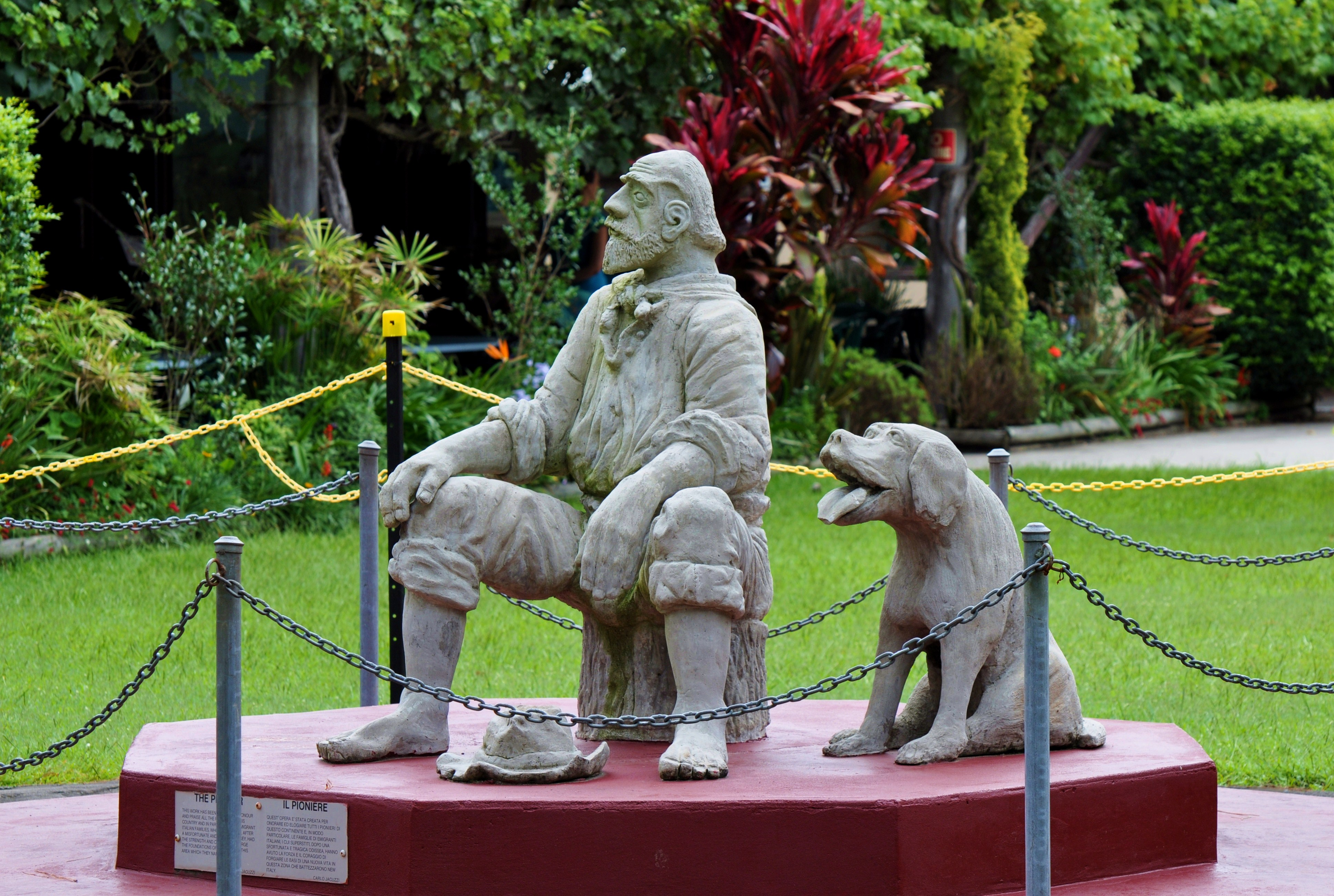 Italian Pioneer Tribute